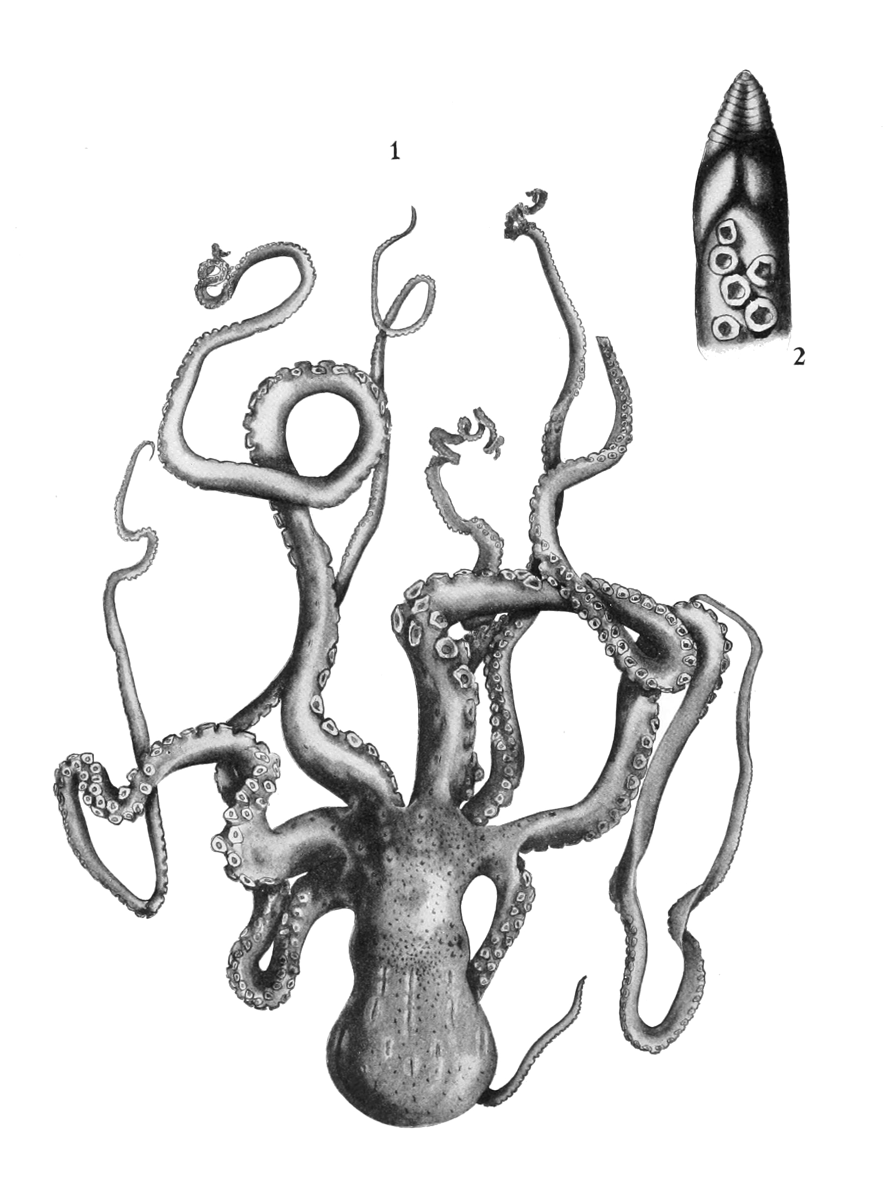 Callistoctopus ornatus (synonym: Polypus ornatus, Octopus ornatus ), dorsal view of a medium sized male from Honolulu.